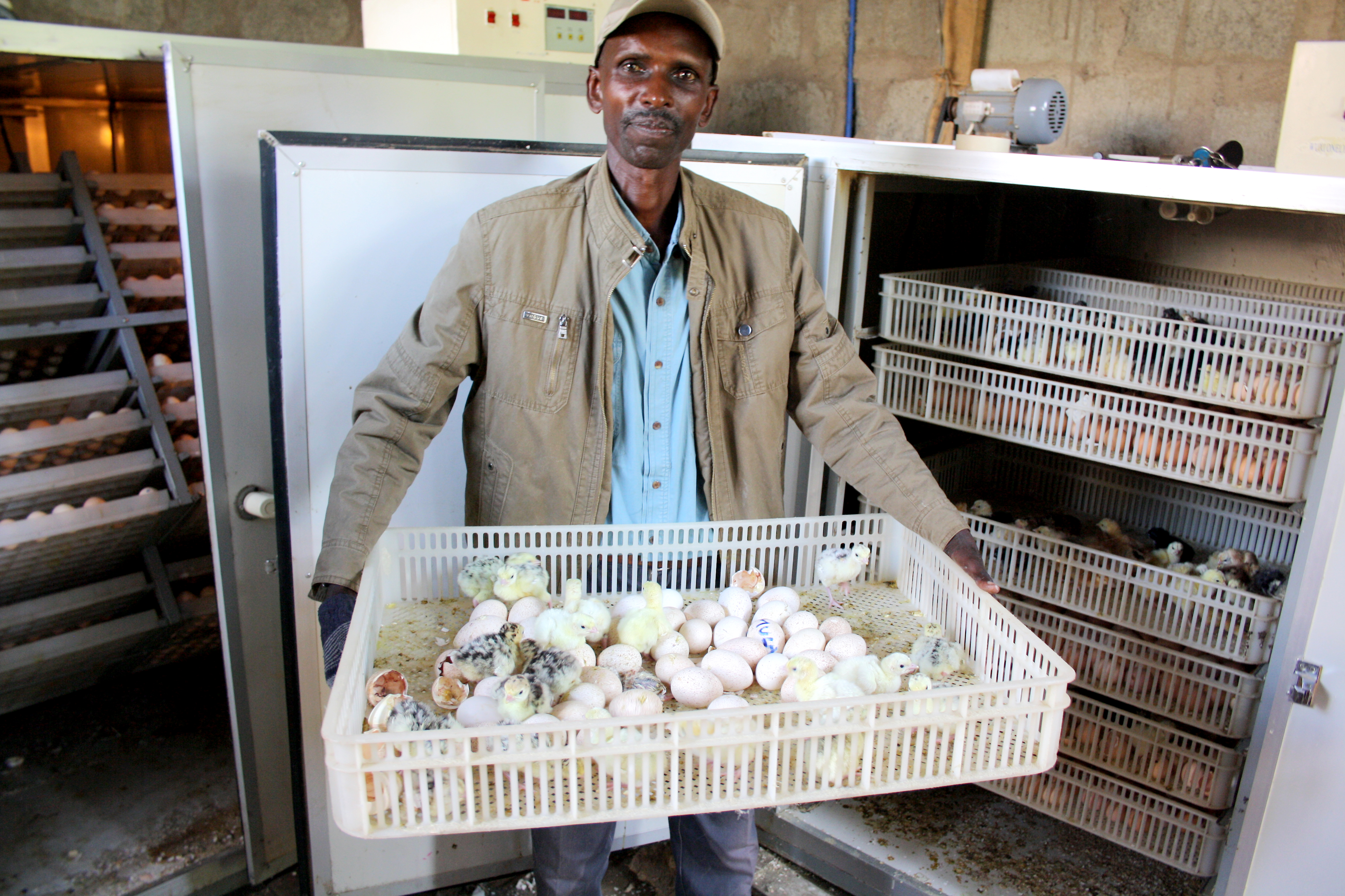 Beyond his fields, Mr Kitorami is a Tanzanian farmer who is diversifying his business. Thanks to an incubator loaned to him by Equity for Africa – a partnership supported by the UK and AgDevCo – he helps local poultry farmers to hatch their chicks at about 20p an egg. He says: “It means I have a backup source of income, after the farming season. My wife can run the business from home, while two of my children go to school.” The initiative is part of a wider drive by the UK to promote business partnerships that can help build prosperity. Find out more at UK promotes business links in East Africa to end poverty.